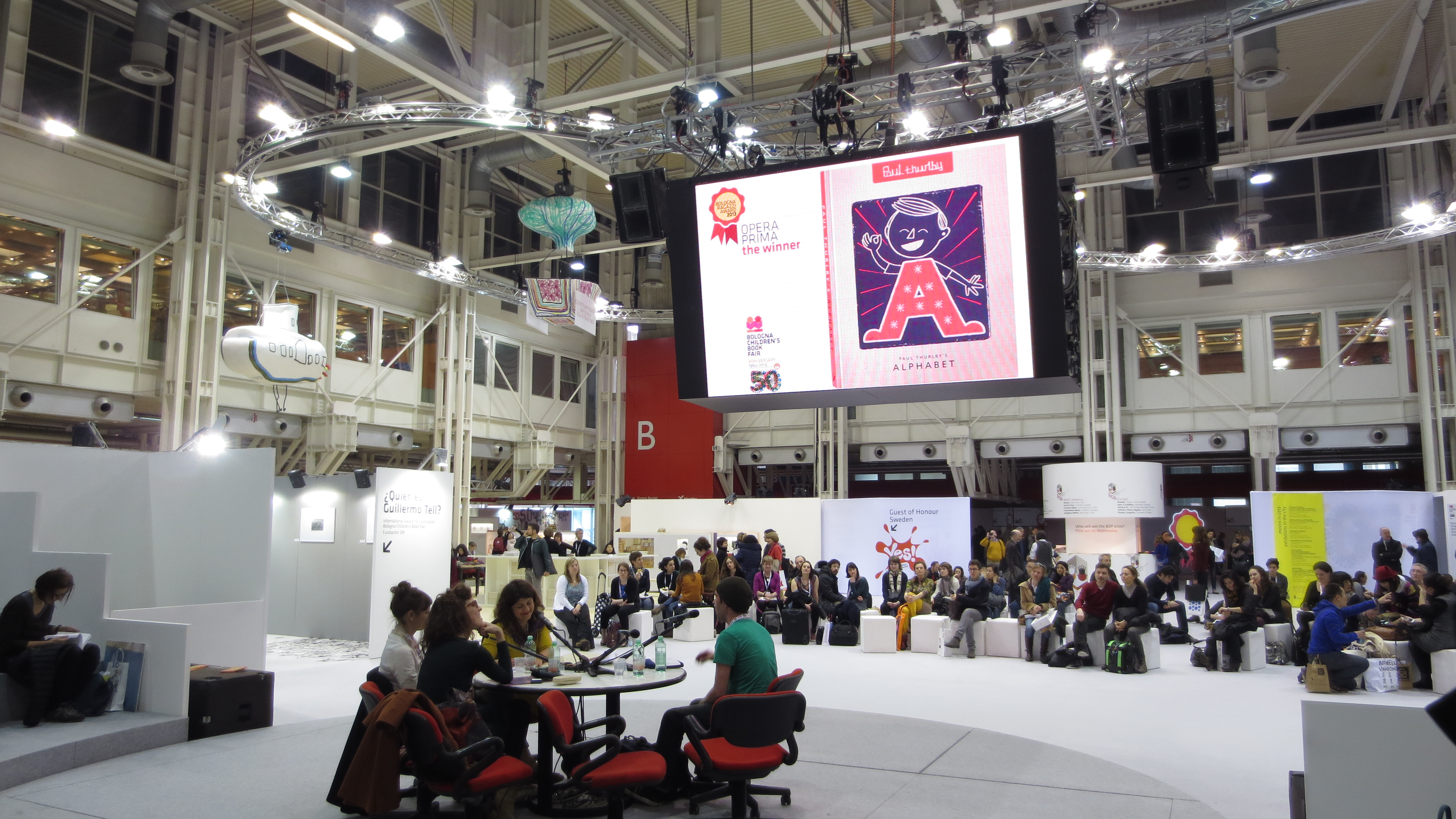 27th March 2013 - Illustrator´s Café at the 50th Bologna Children´s Book Fair, picture 2